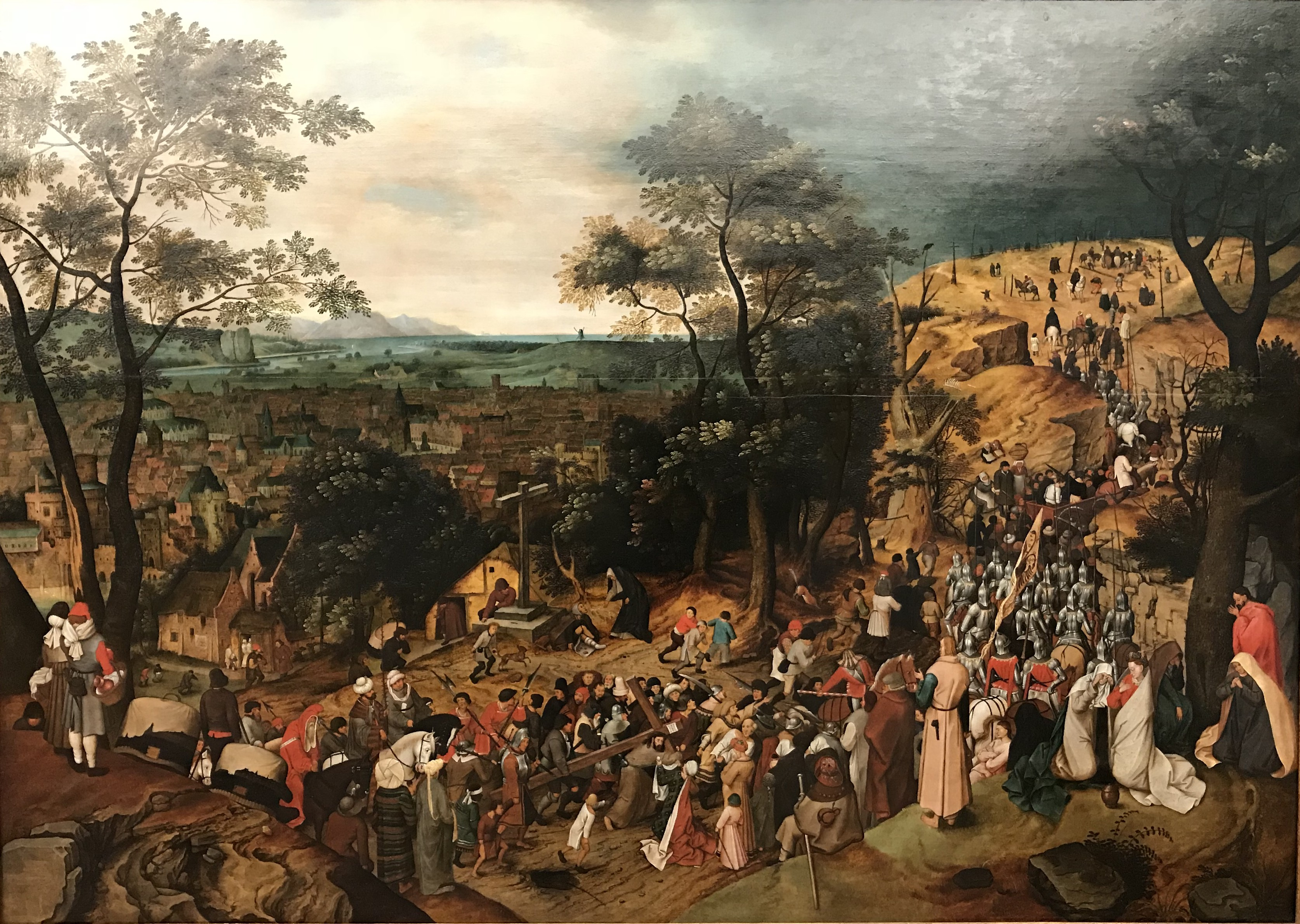 Christ Carrying the Cross, Bruegelle, Gemäldegalerie Berlin